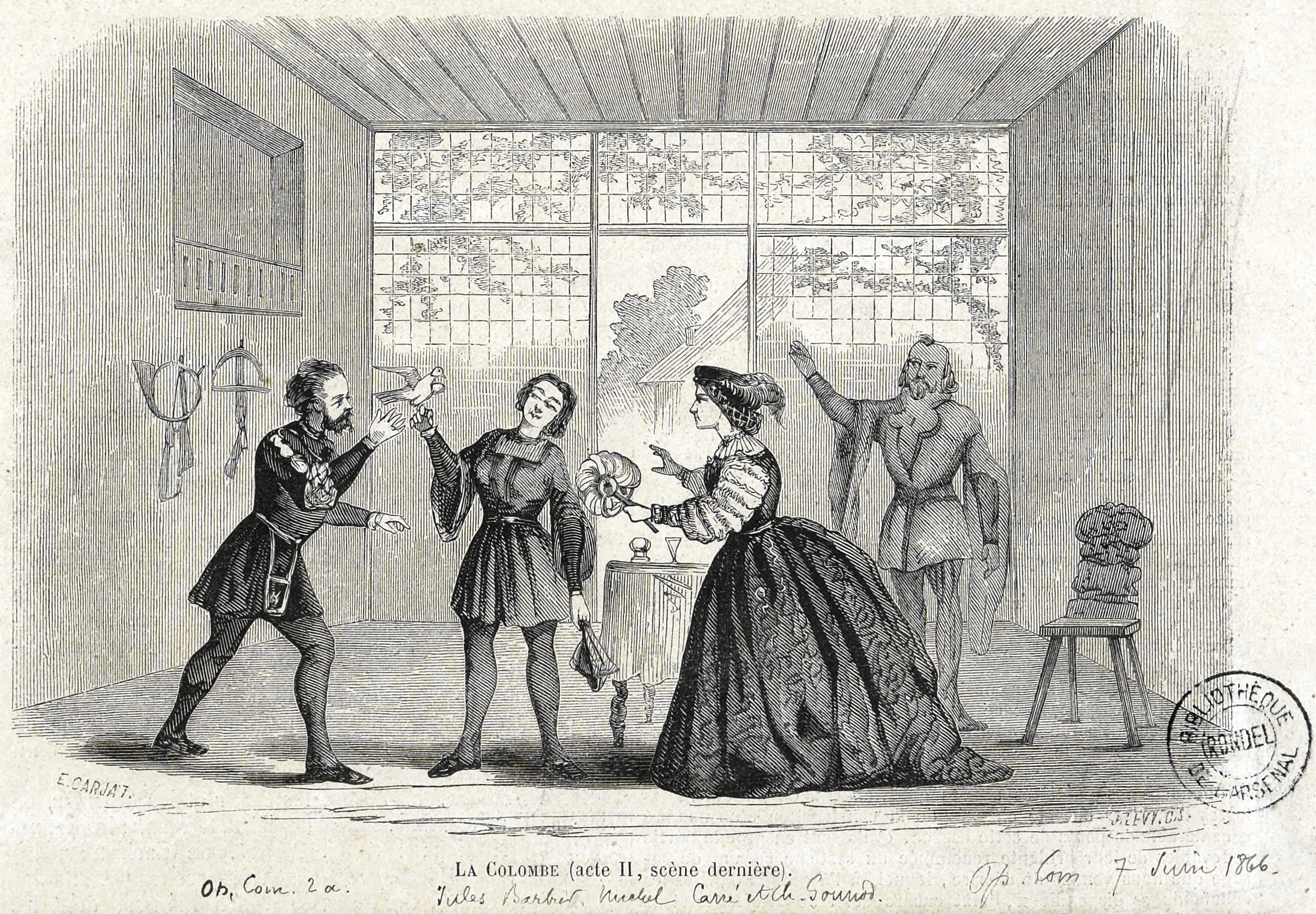 La colombe : opéra-comique en 2 actes / livret de Jules Barbier, Michel Carré. - Paris : théâtre de l'Opéra-Comique, 07-06-1866.